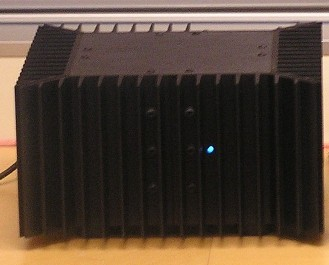 Pass Laboratories Aleph 3 Amplifier. I created this image in 2004 and I am the author. The image is dual licensed.